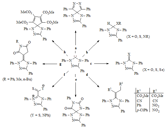 Triazol5ylidene reactions